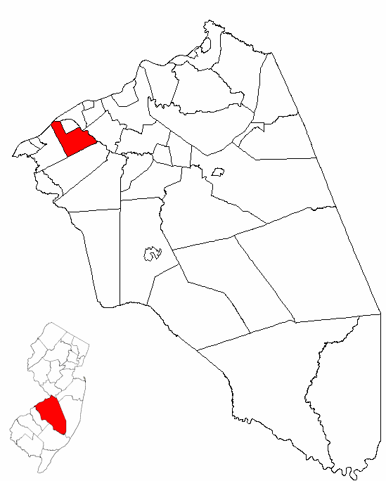 Map of Burlington County highlighting Delran Township